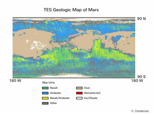 Geologic map of Mars showing hematite-rich areas in red, based on spectroscopic measurements taken by the Mars Global Surveyor Thermal Emission Spectrometer. The red area in the center of the map, at the landing site of the rover Opportunity, shows a high concentration of hematite.